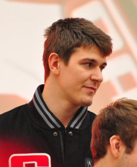 Team Canada forward Mark Scheifele at a press conference for the 2012 World Junior Championships on December 23, 2011, in Edmonton, Alberta.